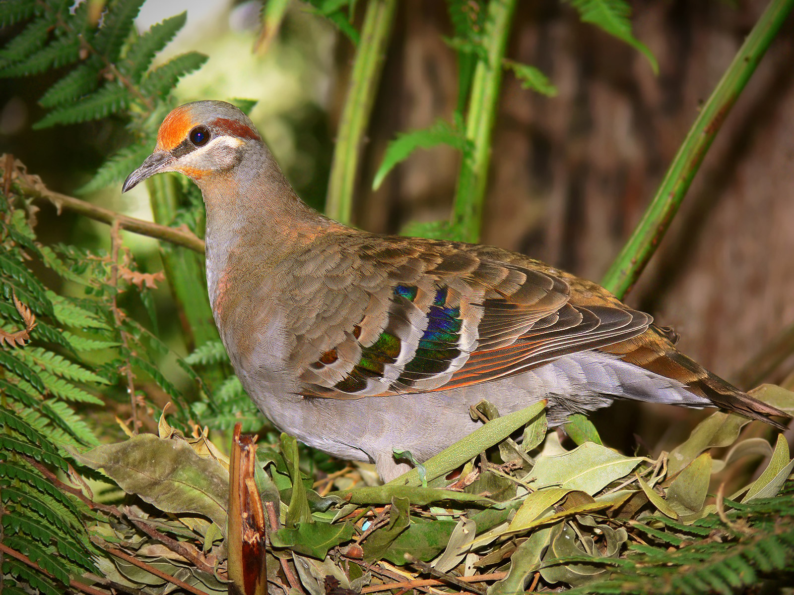 A Brush bronzewing pigeon, Phaps elegans, standing upon it's semi-completed nest which was just a few feet above the ground in the crown of a treefern.